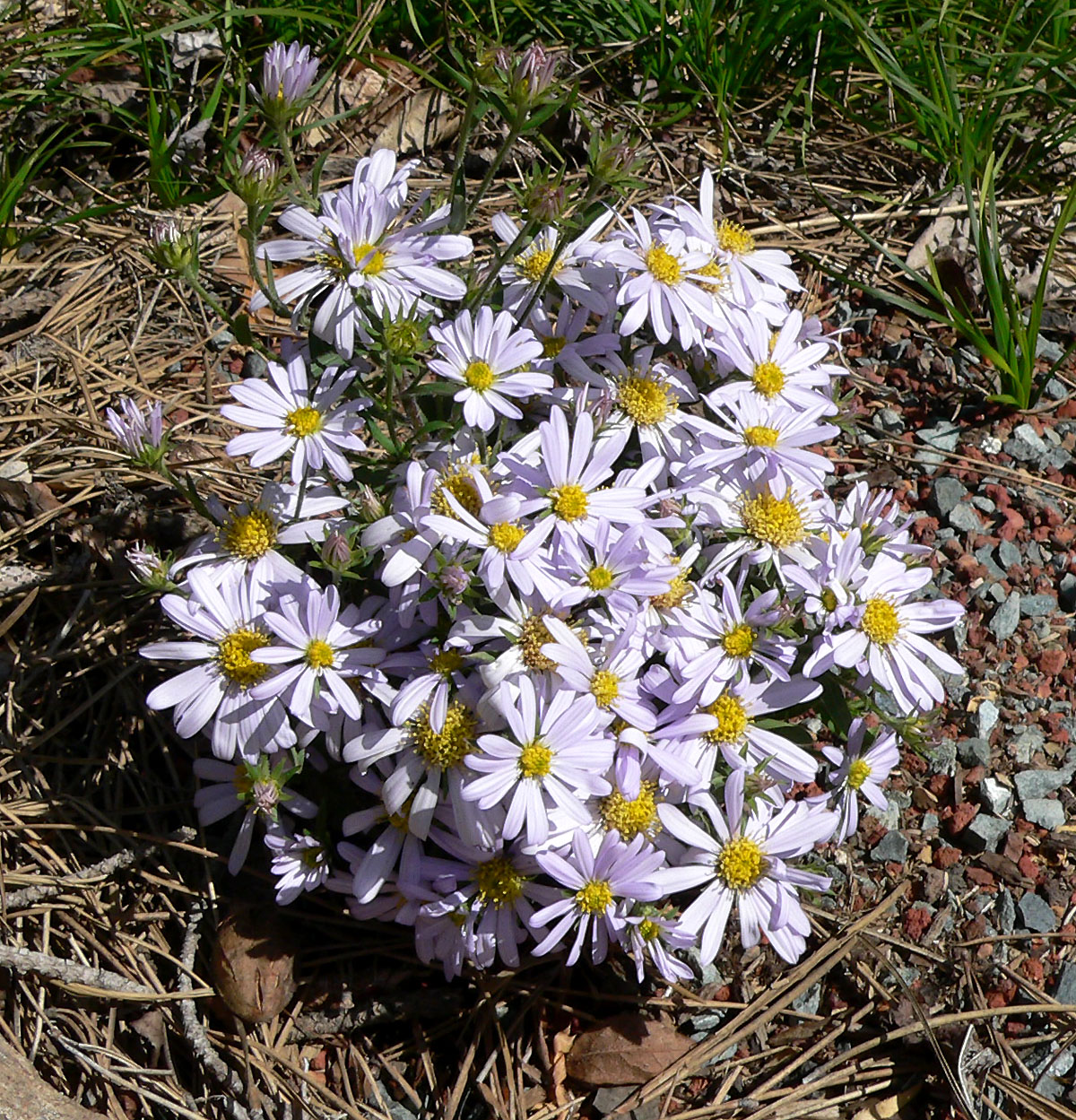 Aster pekinensis at the University of California Botanical Garden, Berkeley, California